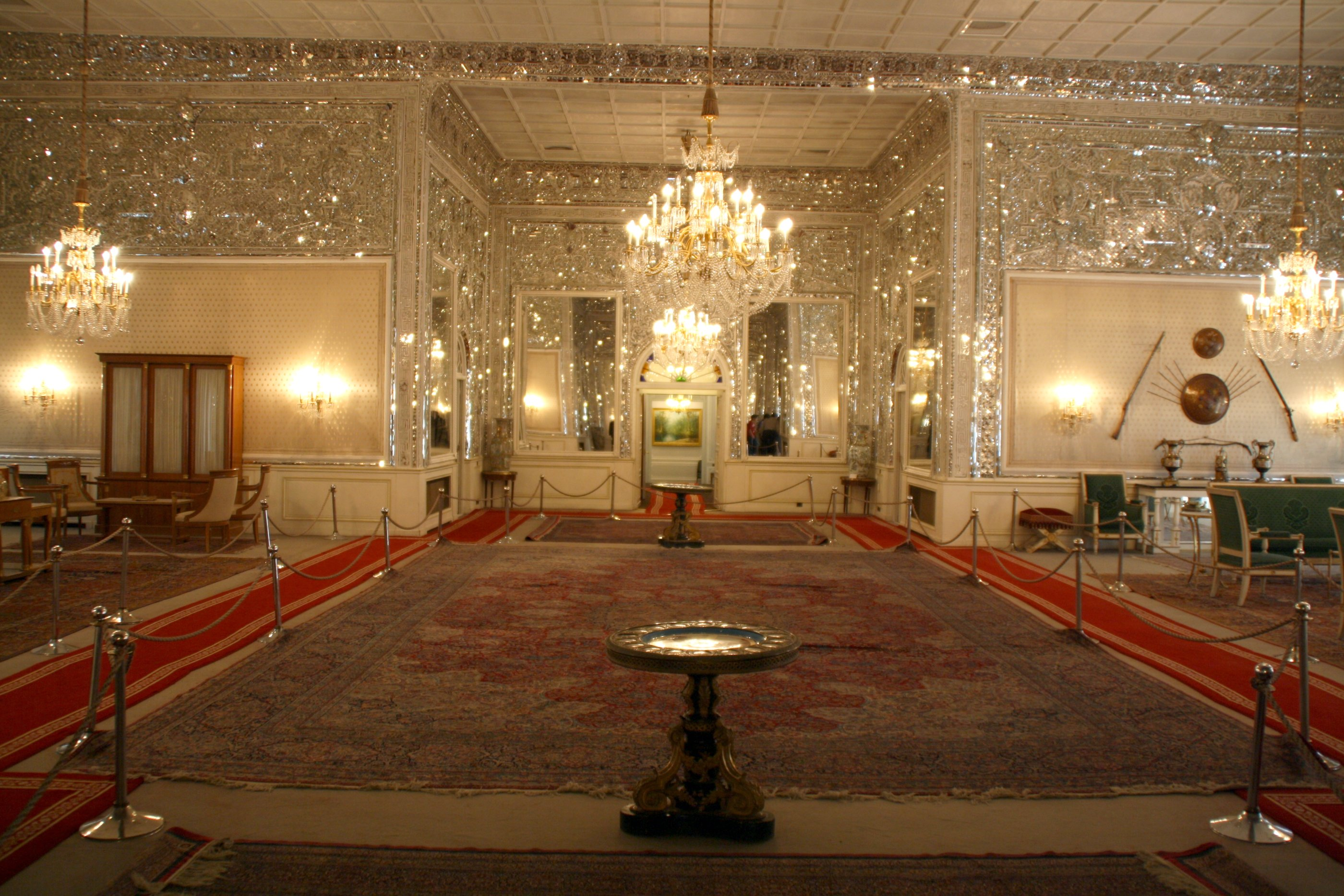 Room of Mirrors — in Niavaran Palace complex, Tehran